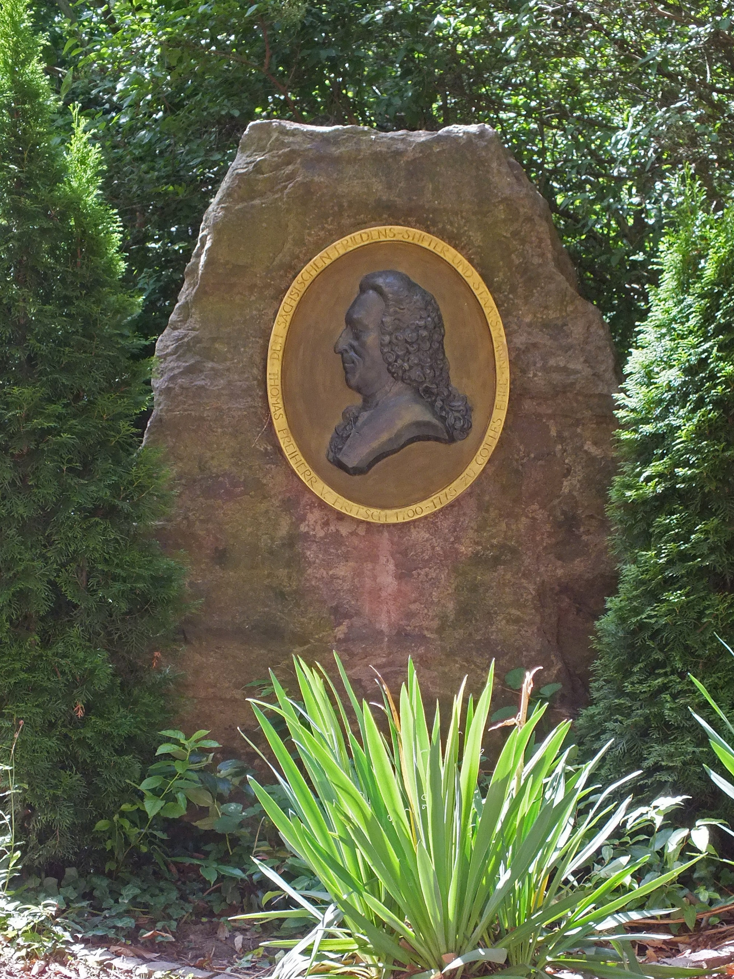 A memorial stone for Thomas Fritsch installed on the west side of the castle Hubertusburg .Inscription on the plaque: SUCKS THE SAXON PEACEMAKER AND STATESMAN V. FRITSCH THOMAS BARON 1700-1775 Glory to God